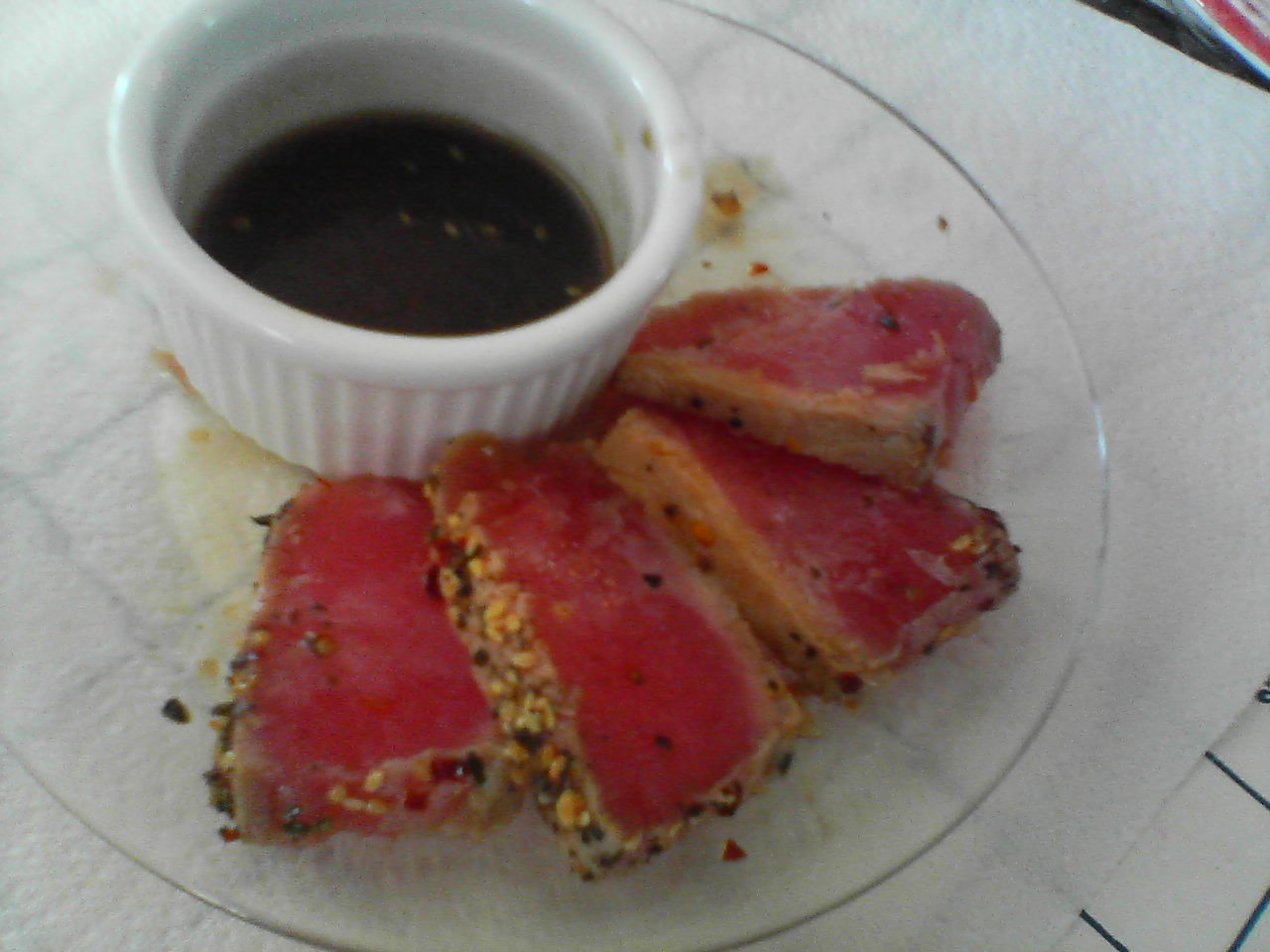 Encrusted with sesame seeds, pepper, chili flakes, and a hint of cumin. Sprinkled with lemon juice and served with ponzu sauce. And yes, I cooked this.